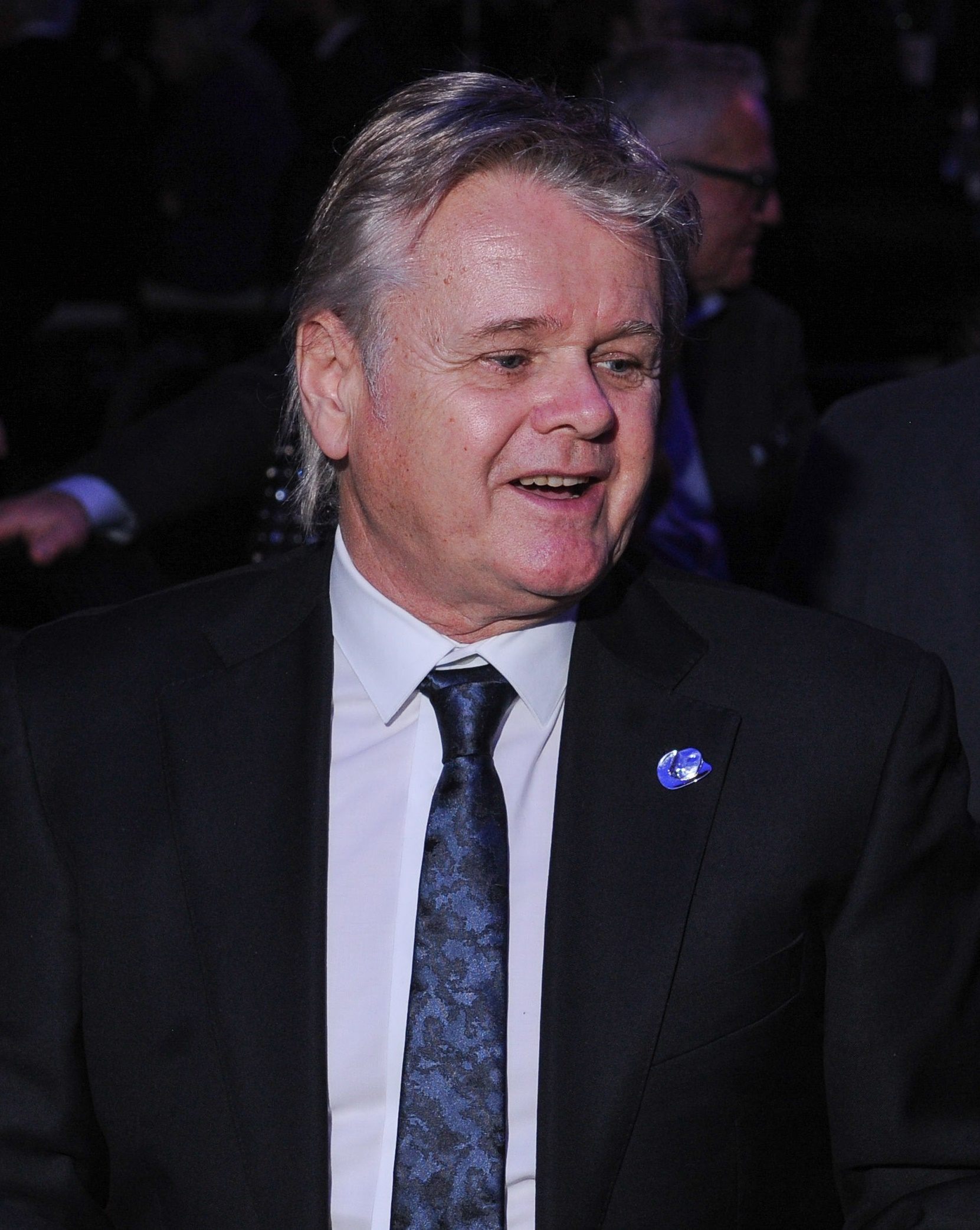 Sturla Gunnarsson in 2016